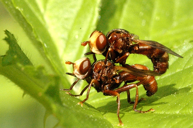 Picture taken in Commanster, Belgian High Ardennes . Species: Sicus ferrugineus couple